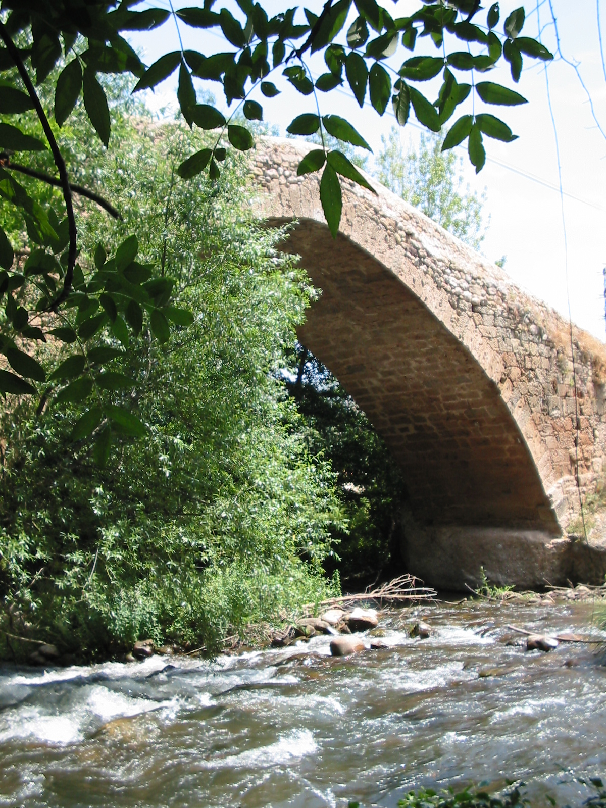 Iregua River (tributary of Ebro River) passing by Viguera, La Rioja (Spain)